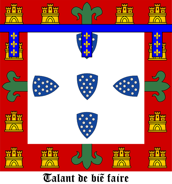 Banner of Arms of Portuguese Prince Henry, the Navigator